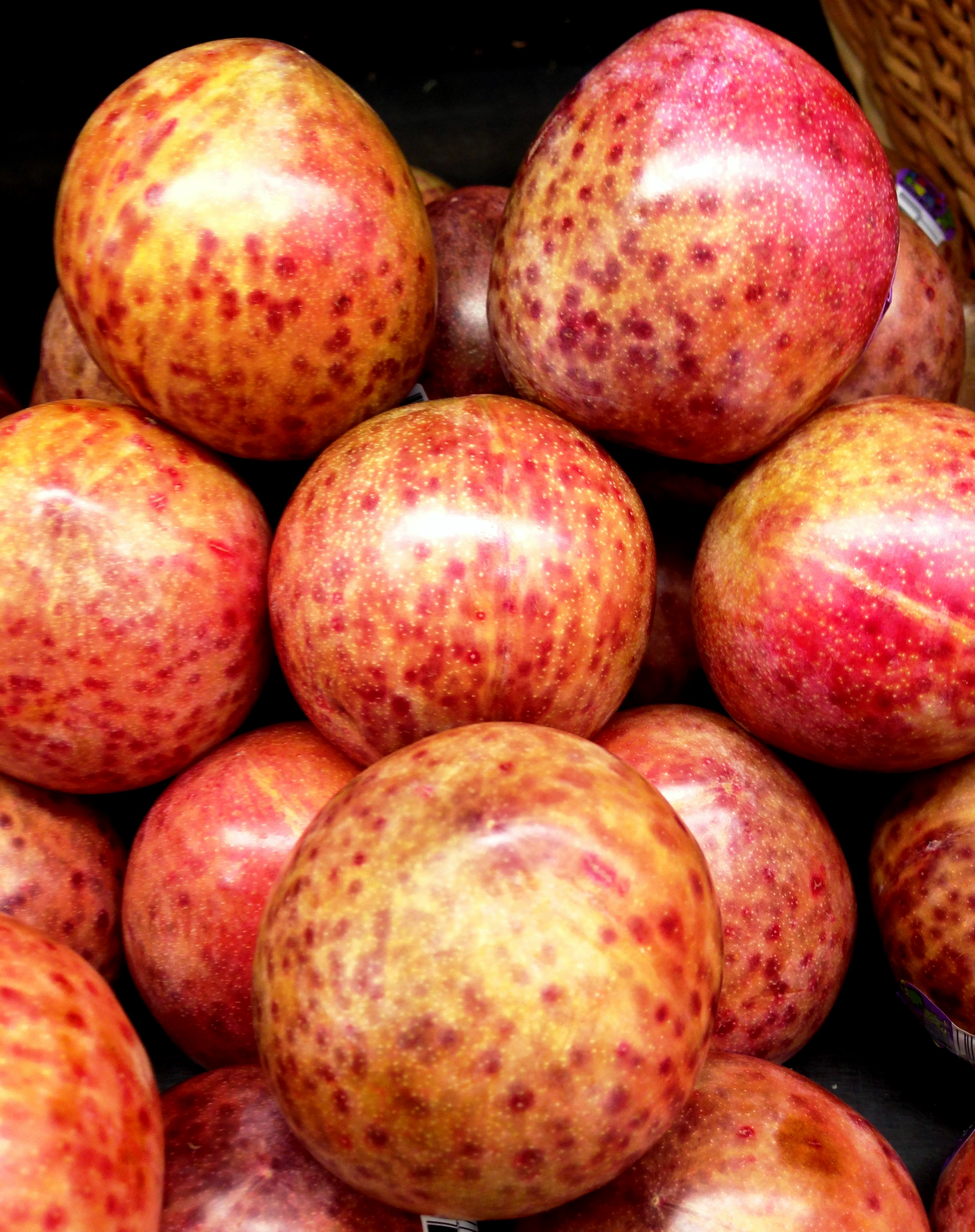 Dapple Dandy pluots